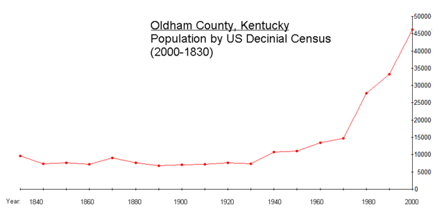 Graph of Oldham County population. Created by Censusdata and edited by johnflux, all rights released.